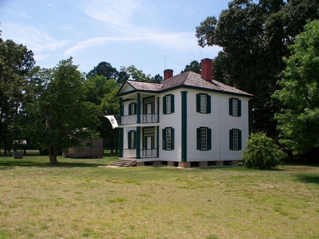 The Harper House, main dwelling of the Harper family. During the March 1865 Battle of Bentonville in North Carolina it served as a hospital of the Union forces. It has since been restored and is part of the Bentonville Battleground State Historic Site.